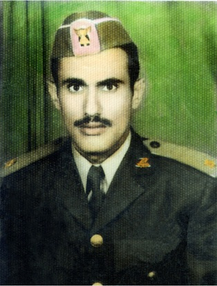 Private Ali Saleh in the Imamate Army of Yemen. This picture was defiantly taken more than 10 years ago